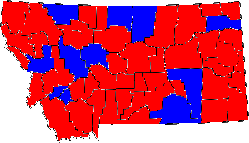 2000 Montana U.S. Senate election results by county